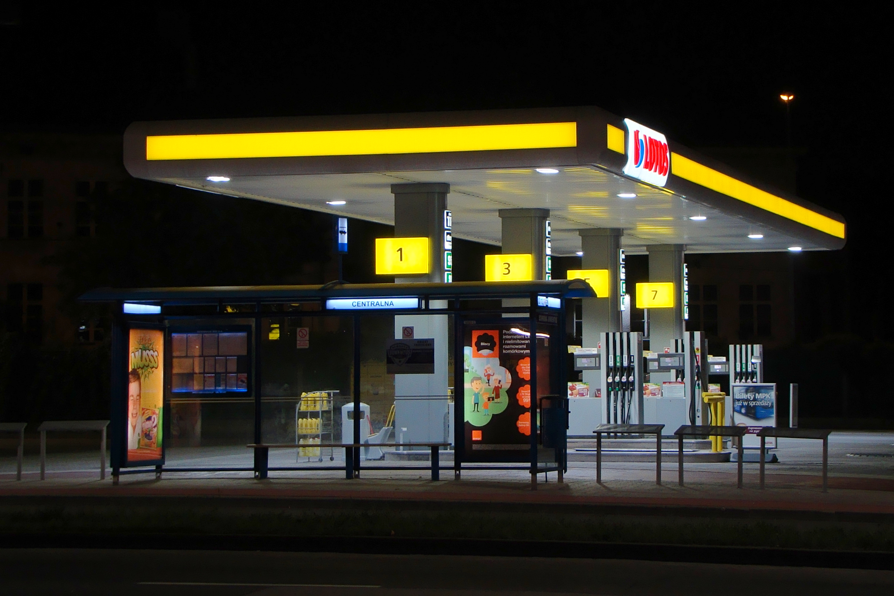 Kraków, Aleja Pokoju - Lotos pertol station by night